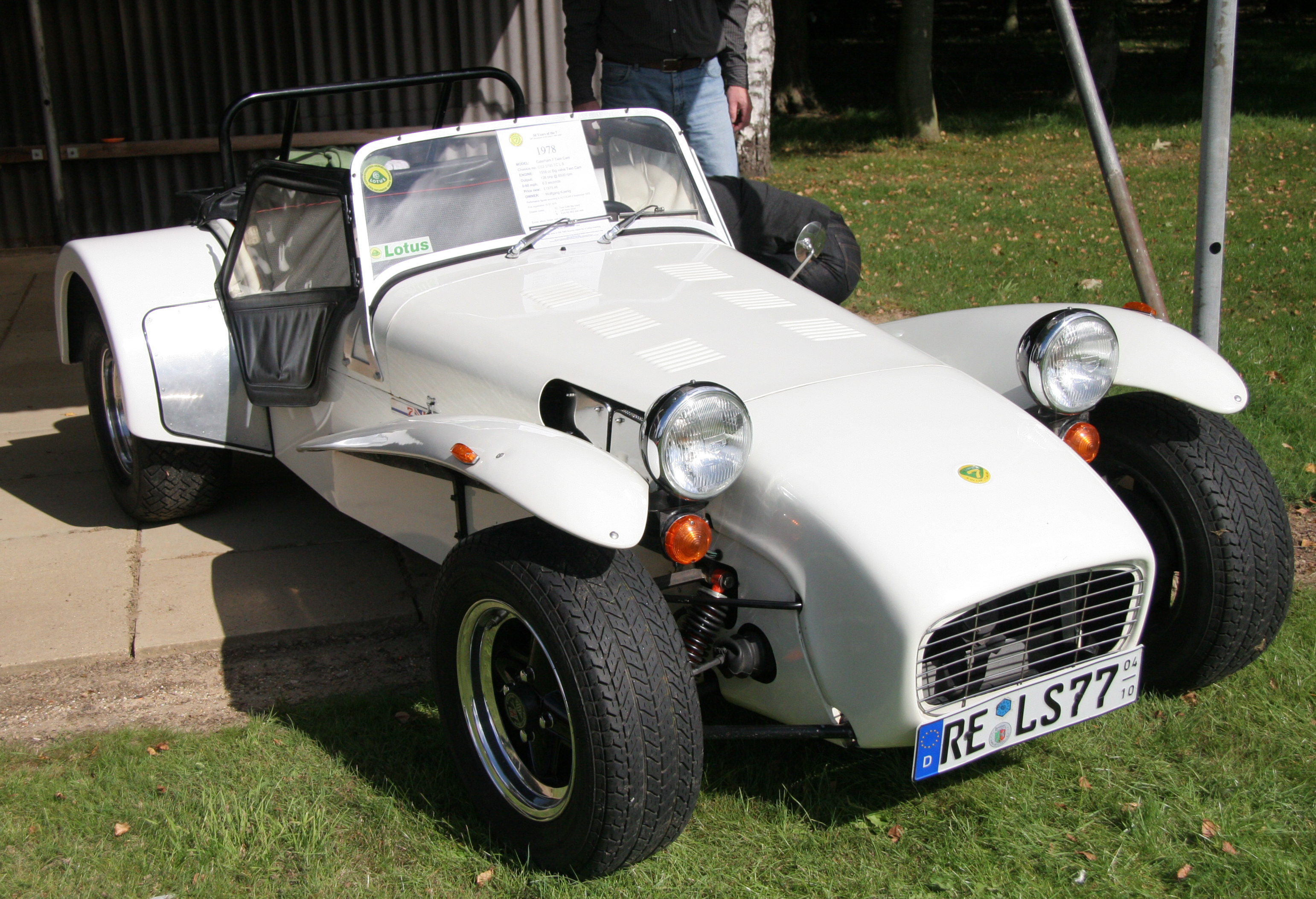 1558 Big Valve Twin Cam